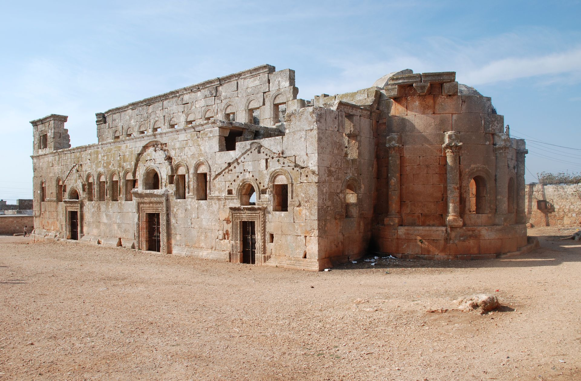 Qalb Loze, basilica from southeast. Dead cities in Syria